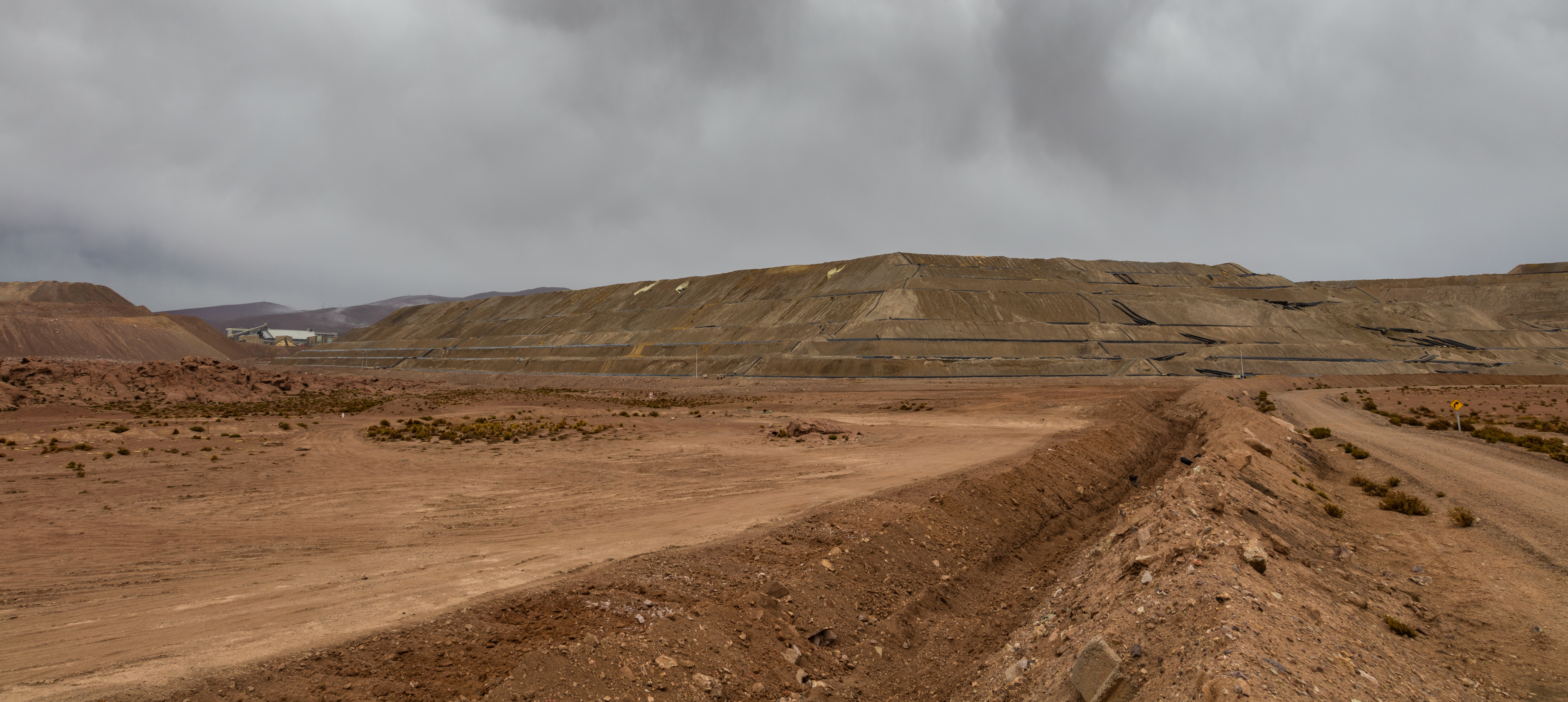 Collahuasi Mine, Tarapacá Region, Chile